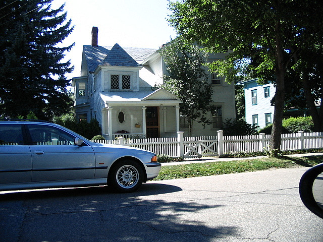 House on South Union Street near Bayview, Burlington, Vermont. Part of the South Union Street Historic District.